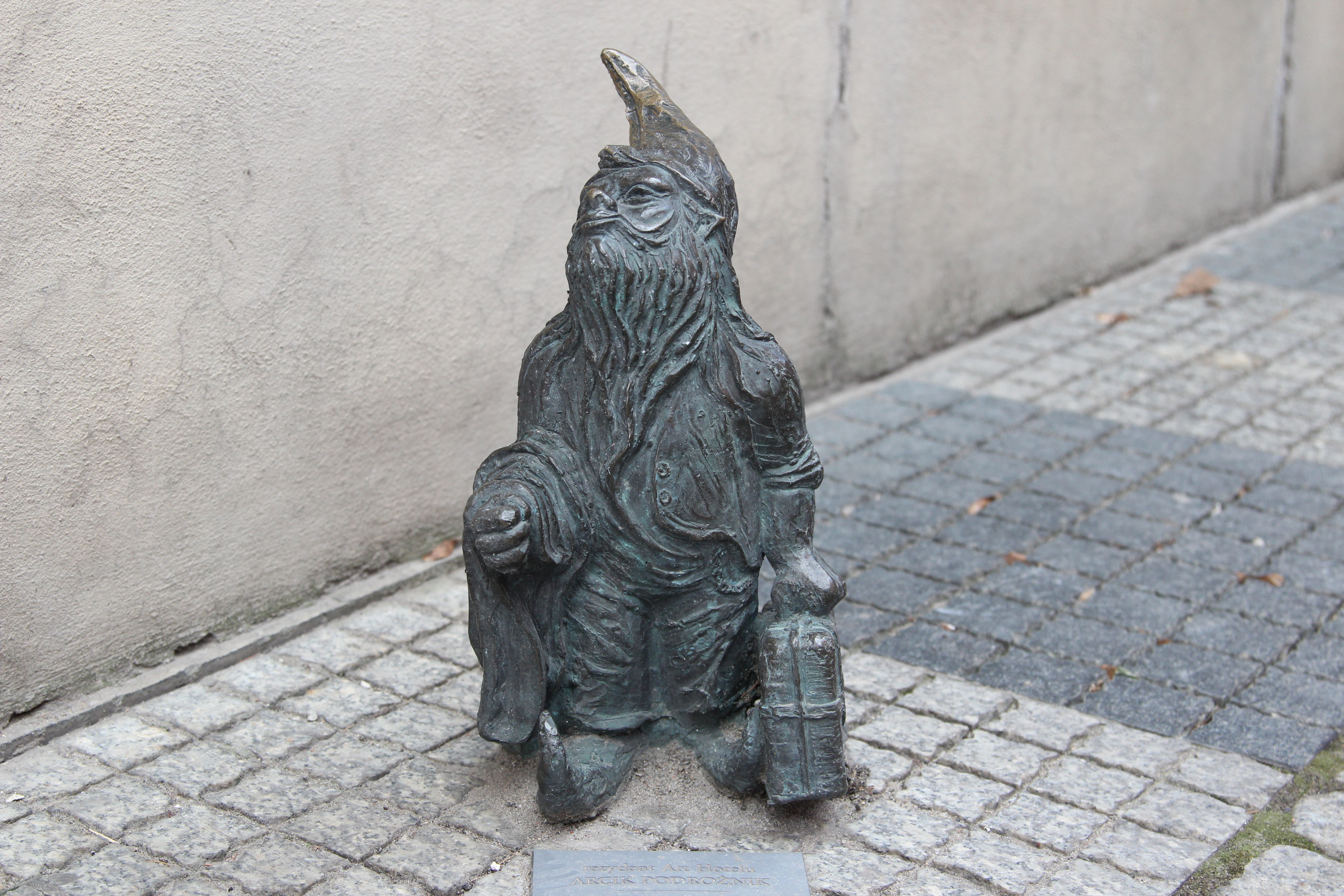 Explorer (Podróżnik) dwarf from Art Hotel on Kiełbaśnicza 20